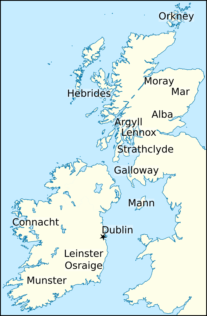 Map for the Wikipedia article concerning Domnall mac Eimín (died 1014).